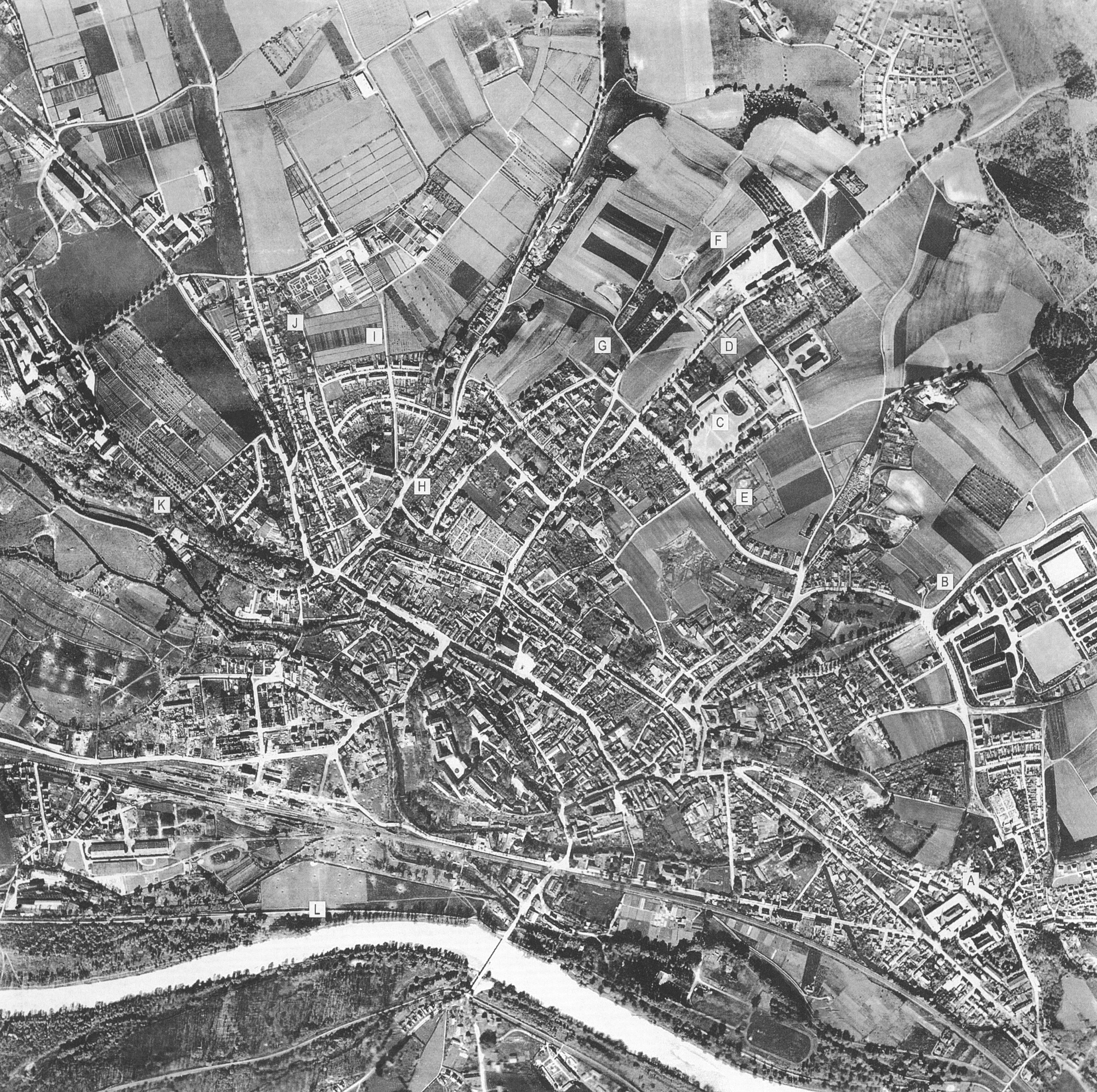 Post attack aerial picture of Freising, Bavaria, attack on 18 April 1945